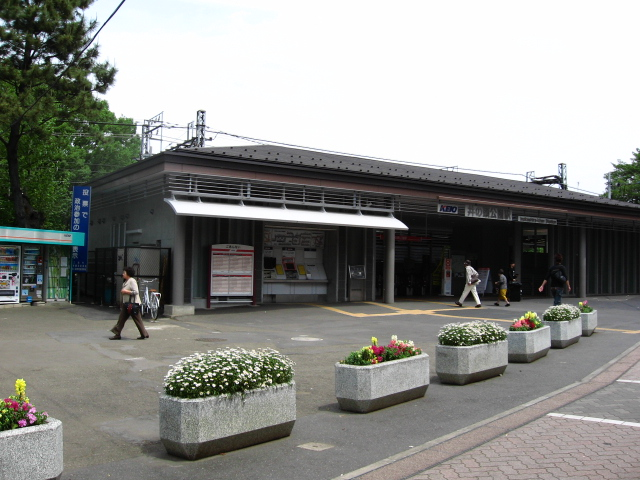 Inokashira-koen Station on the Keio Inokashira Line